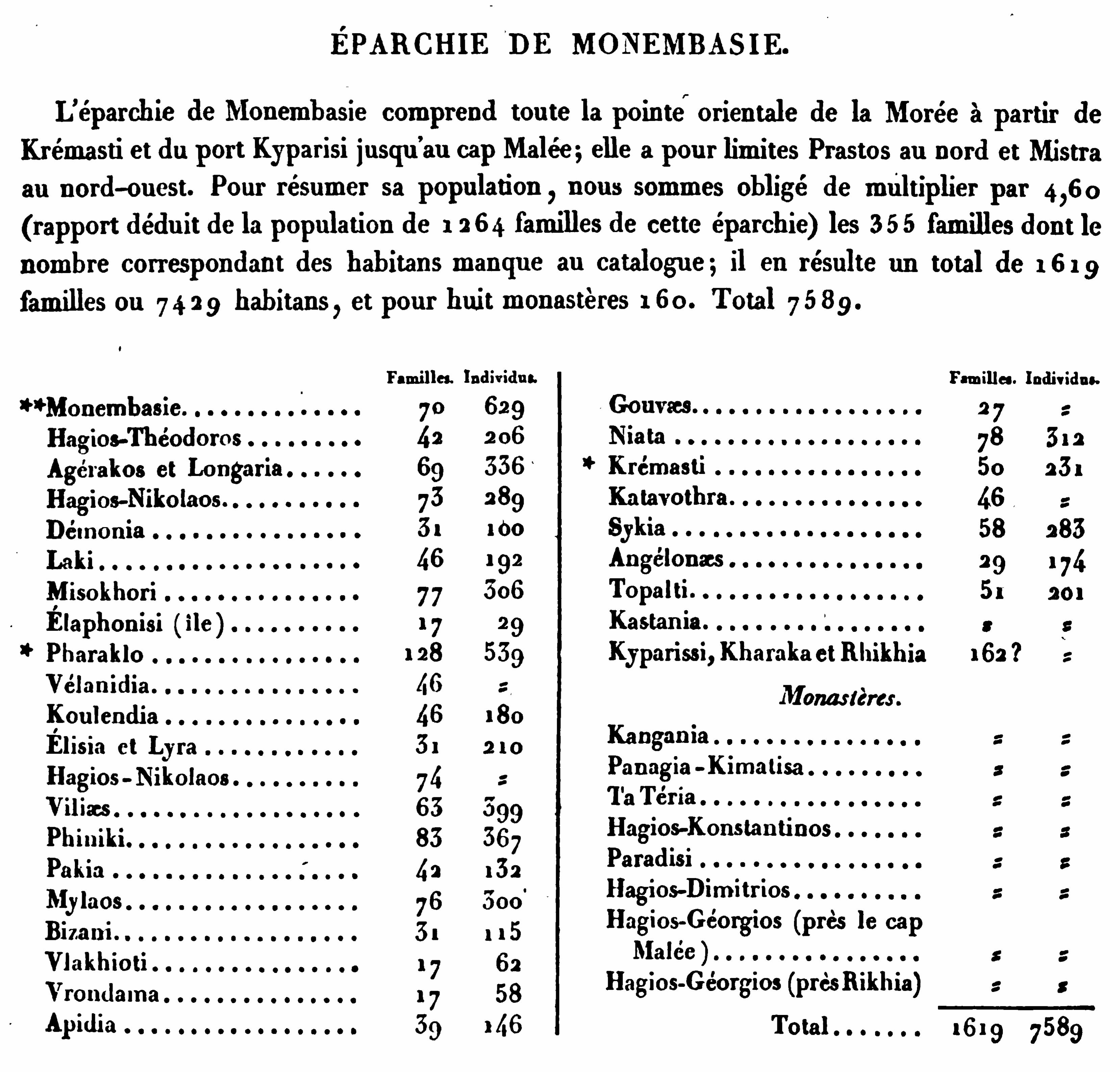 Example of census of Greece / Peloponnese performed by the Expedition de Moree: Eparchie de Monemvasie